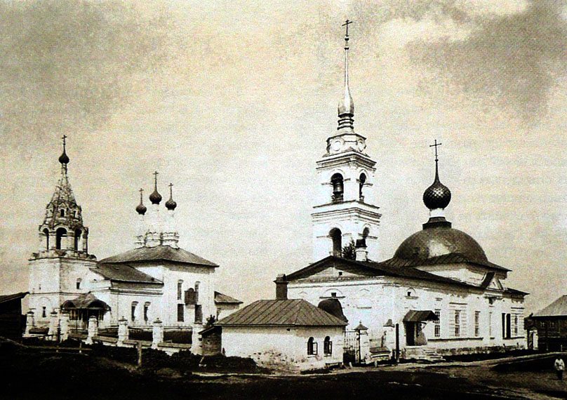 Parish of the Vladimir Theotokos in Yaroslavl